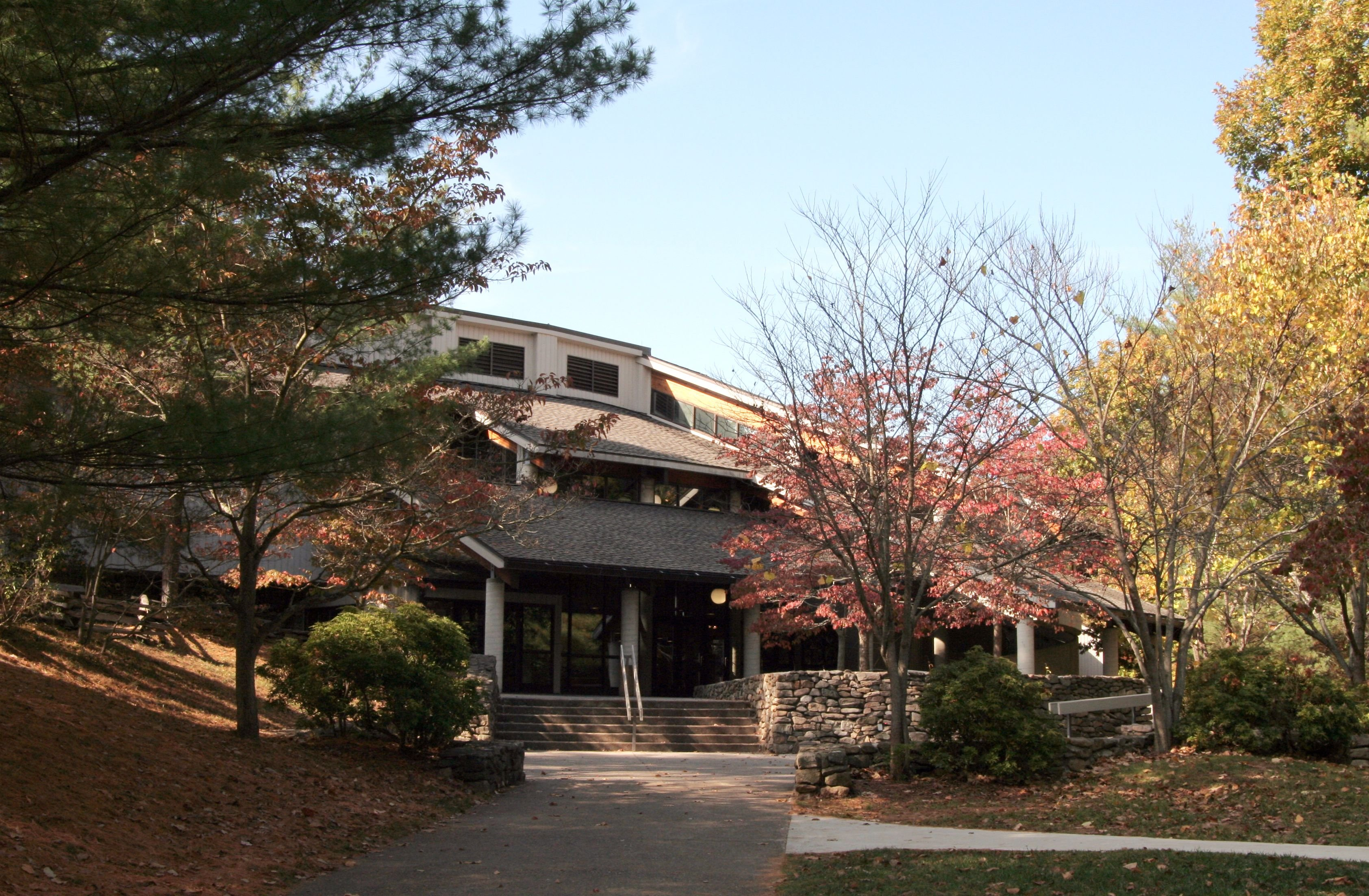 Folk Art Center exterior